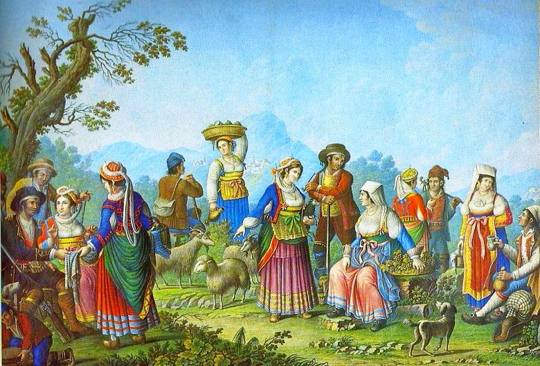 Costume in Calabria about 1800; from left to right:Castrovillari, Firmo, Frascineto, Porcile (Ejanina), Acquaformosa, Morano, San Basile and Cassano